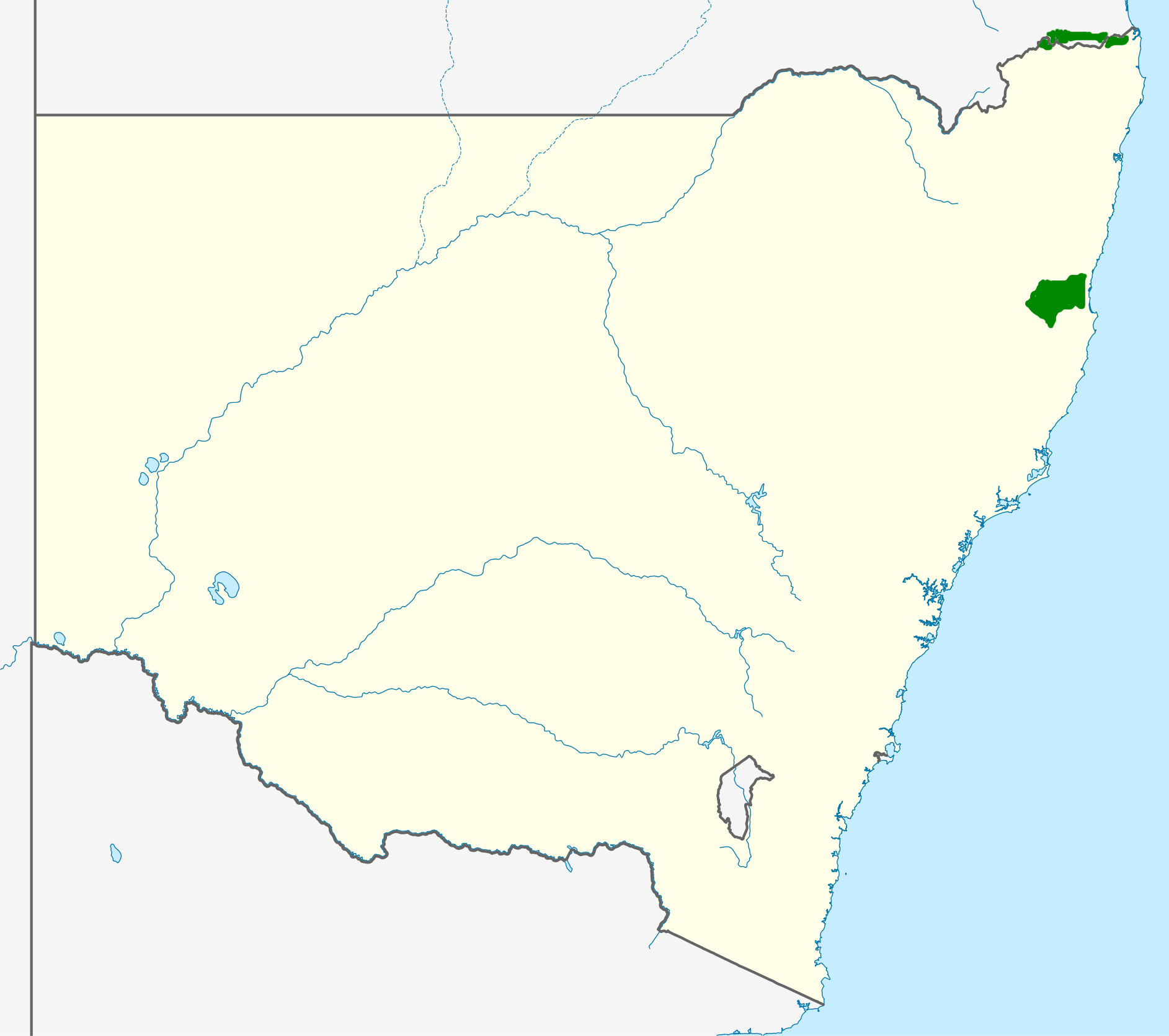 Alloxylon pinnatum range, adapted from Weston, Peter H. (1995) "Persoonioideae" in McCarthy, Patrick (ed.) , ed. Flora of Australia: Volume 16: Eleagnaceae, Proteaceae 1, CSIRO Publishing / Australian Biological Resources Study, p. 466 ISBN: 0-643-05693-9. . Original map is png version of File:Australia New South Wales location map blank.svg